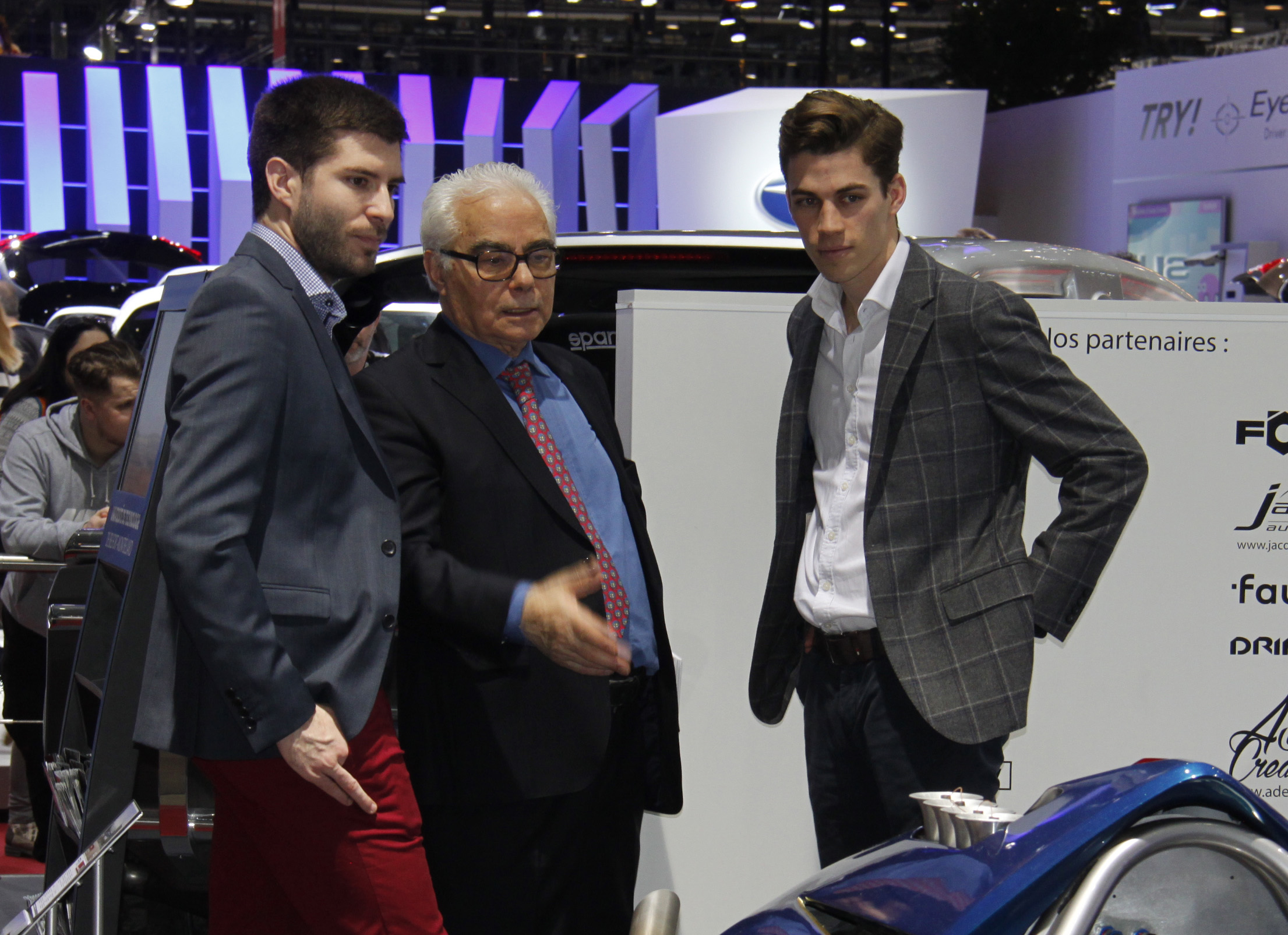 Franco Sbarro talking with Espera Sbarro students at the 2018 Geneva Motor Show.